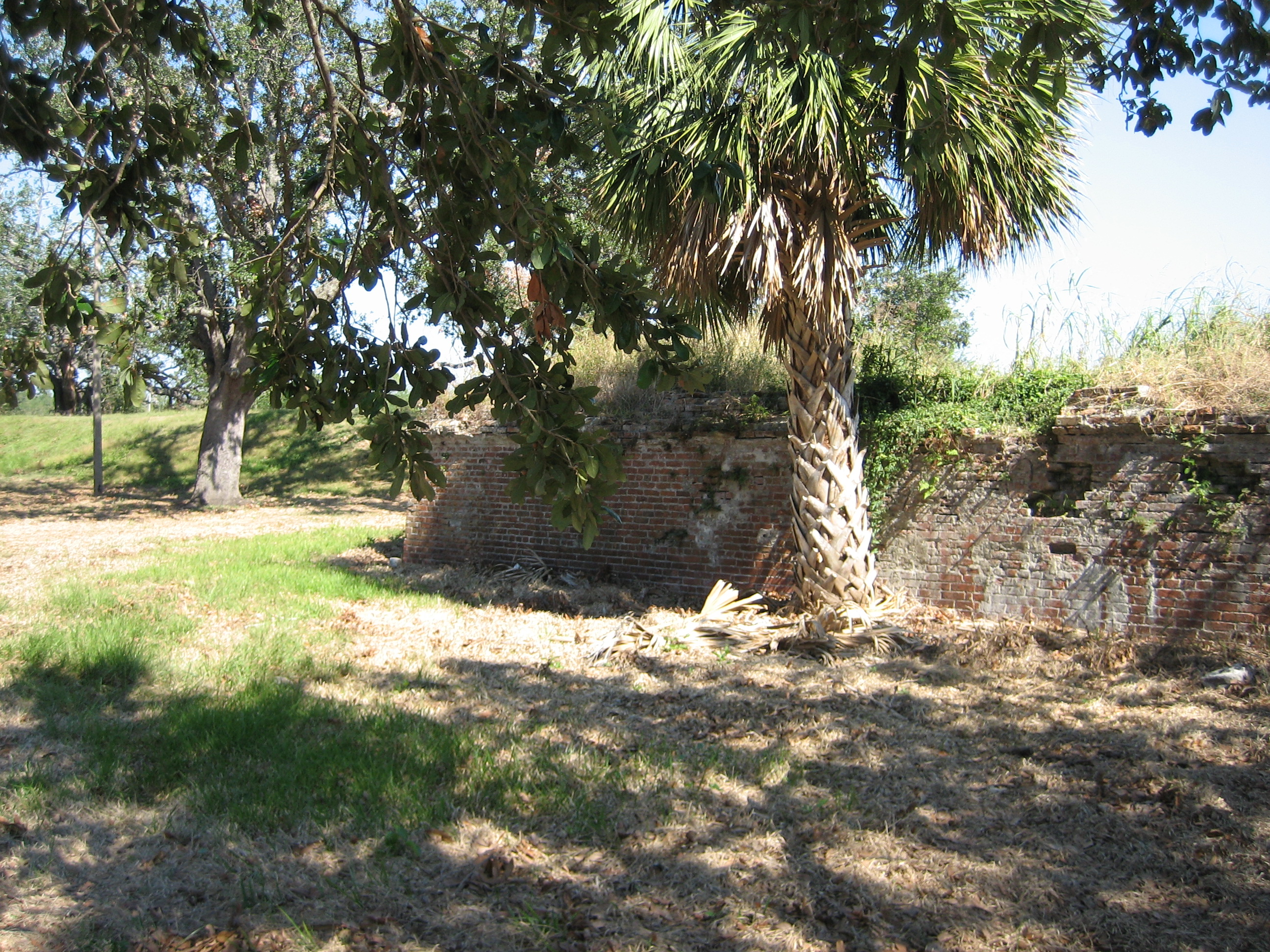 Summary New Orleans: part of the ruins of Old Spanish Fort, a colonial era fortification and later the site of an amusement park.